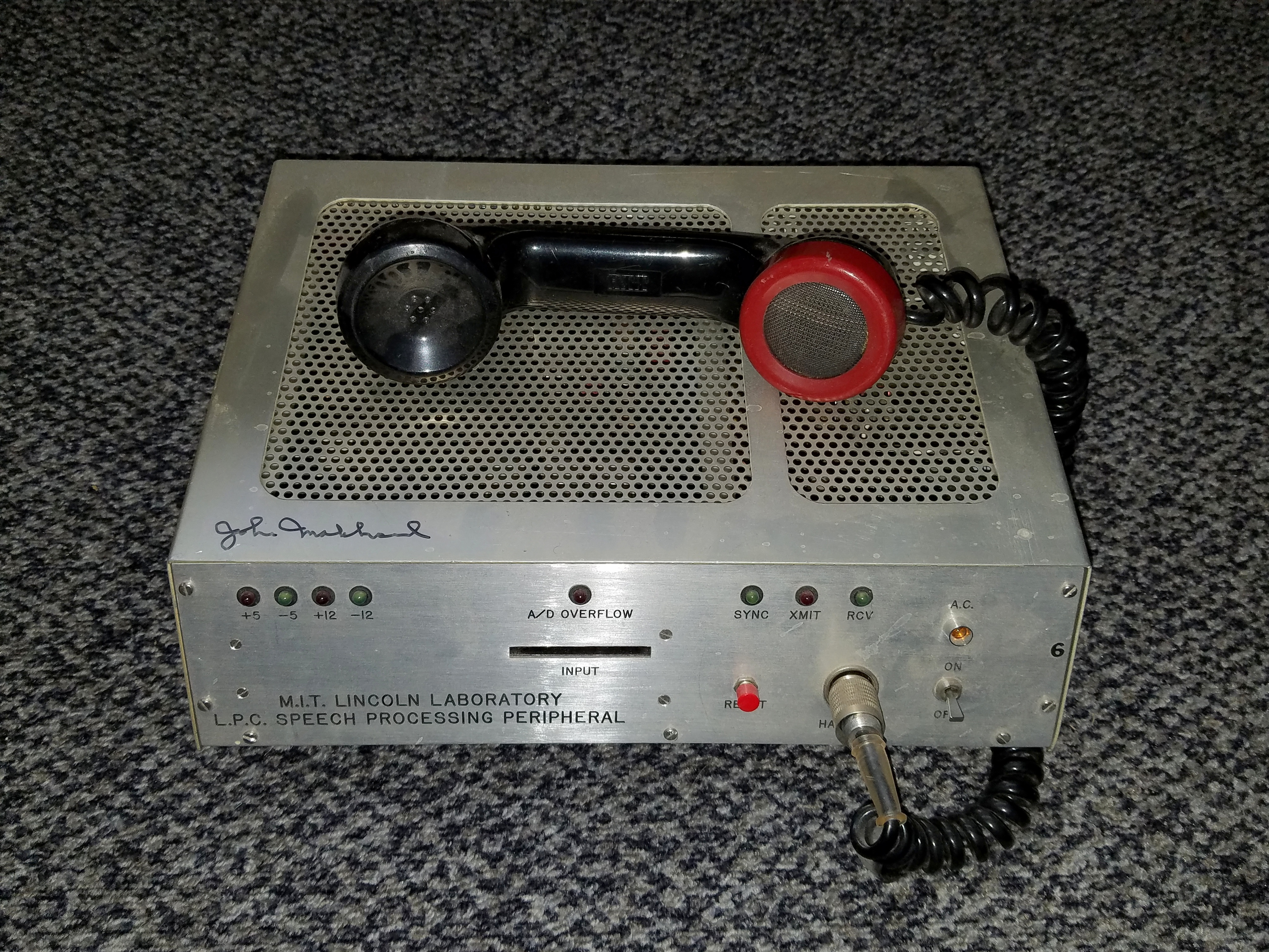 Telephone for Network Voice Protocol (NVP) over Internet Stream Protocol (ST) - early VOIP prototype - Lincoln Lab, signed by John Makhoul.